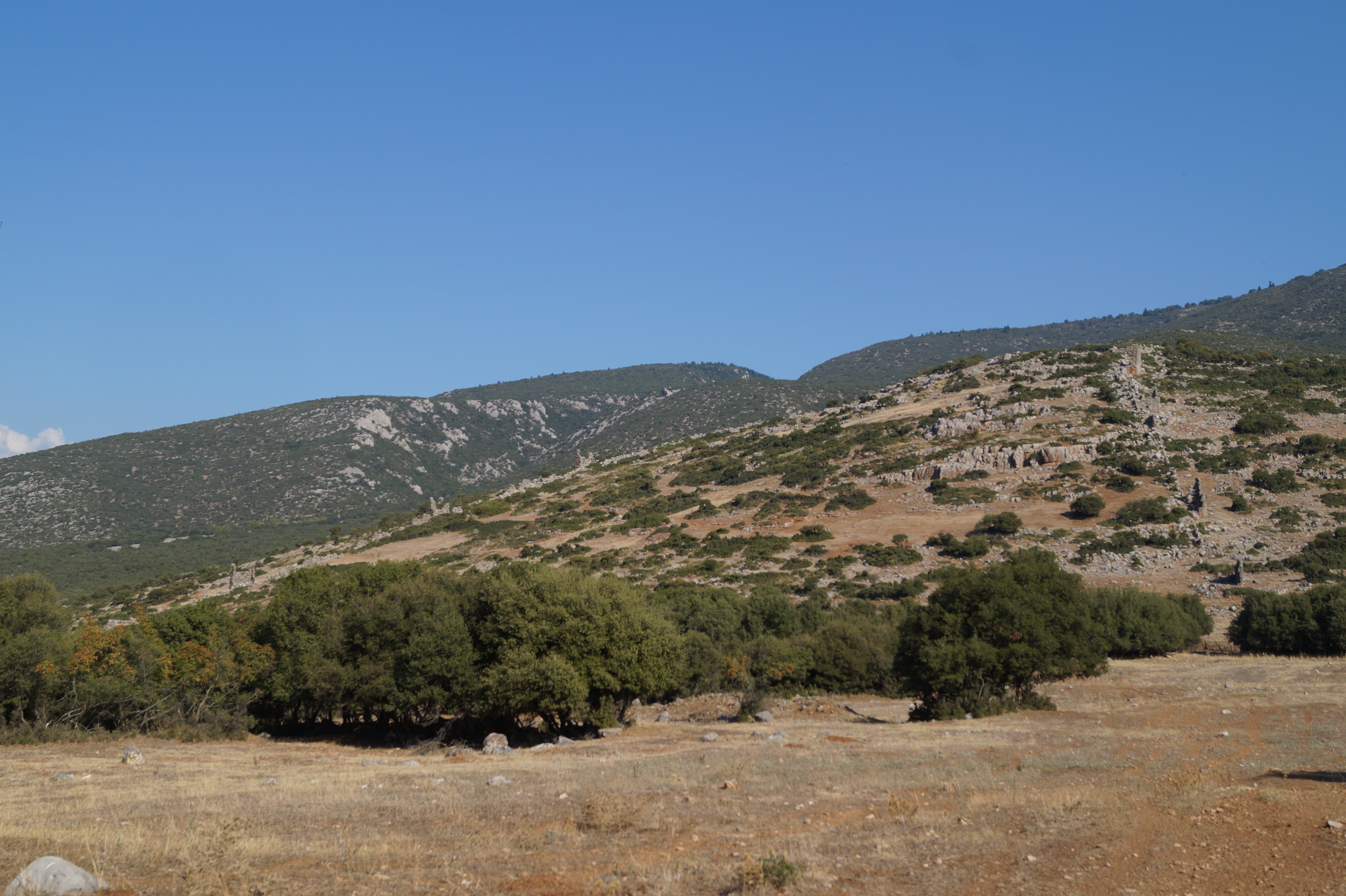 Fthiotida, Greece: Ancient city of Drymaia, view from south.